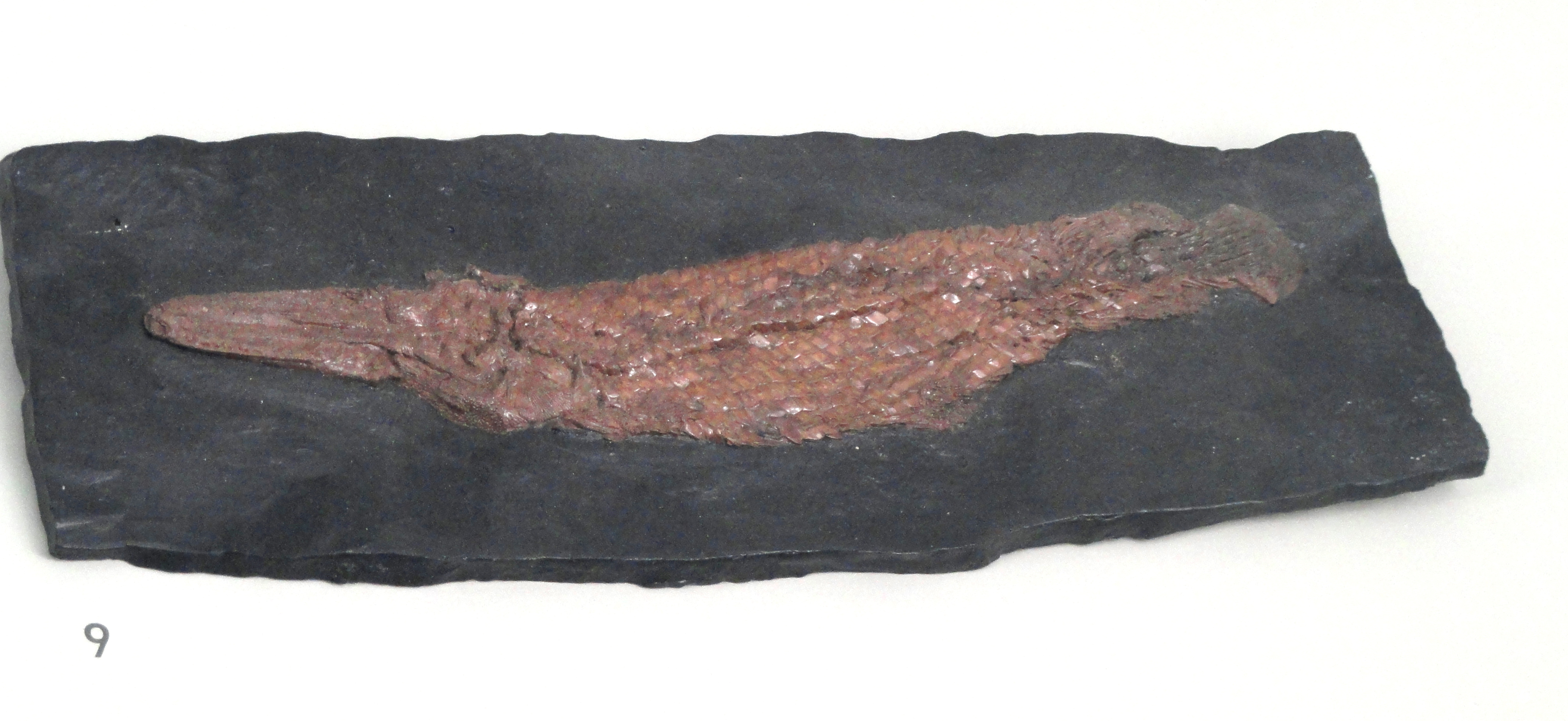 Atractosteus strausi. Exhibit in Naturmuseum Freiburg, Freiburg im Breisgau, Baden-Württemberg, Germany.